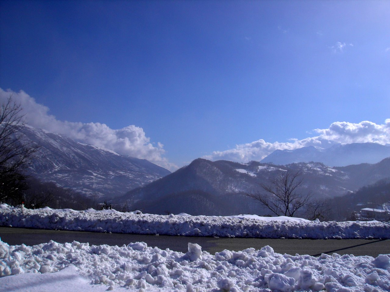 Roveto Valley